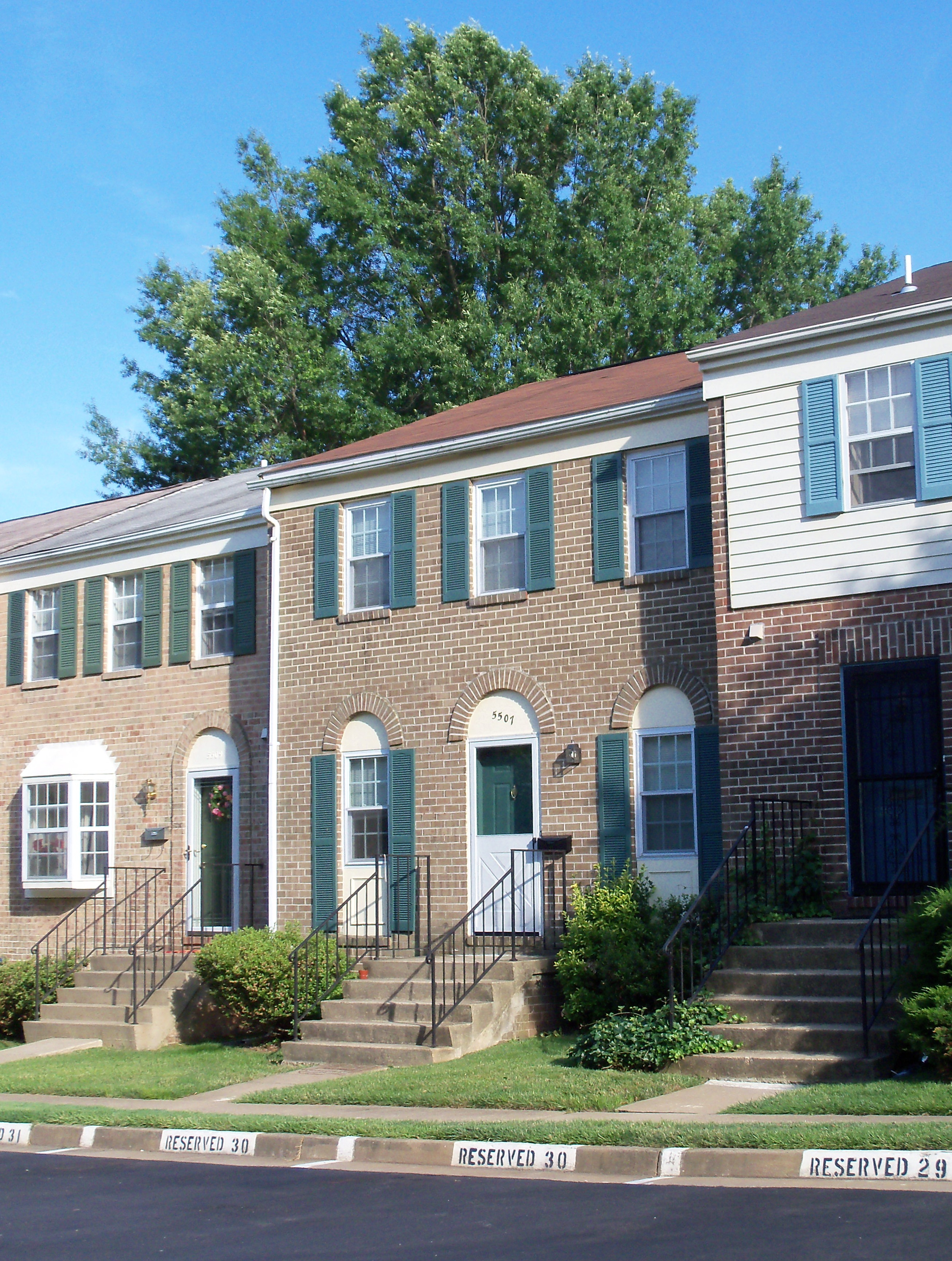 5507: Party Central